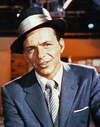 Screenshot of Frank Sinatra from the trailer for the film Pal Joey, 1957Frame taken from MPEG4.